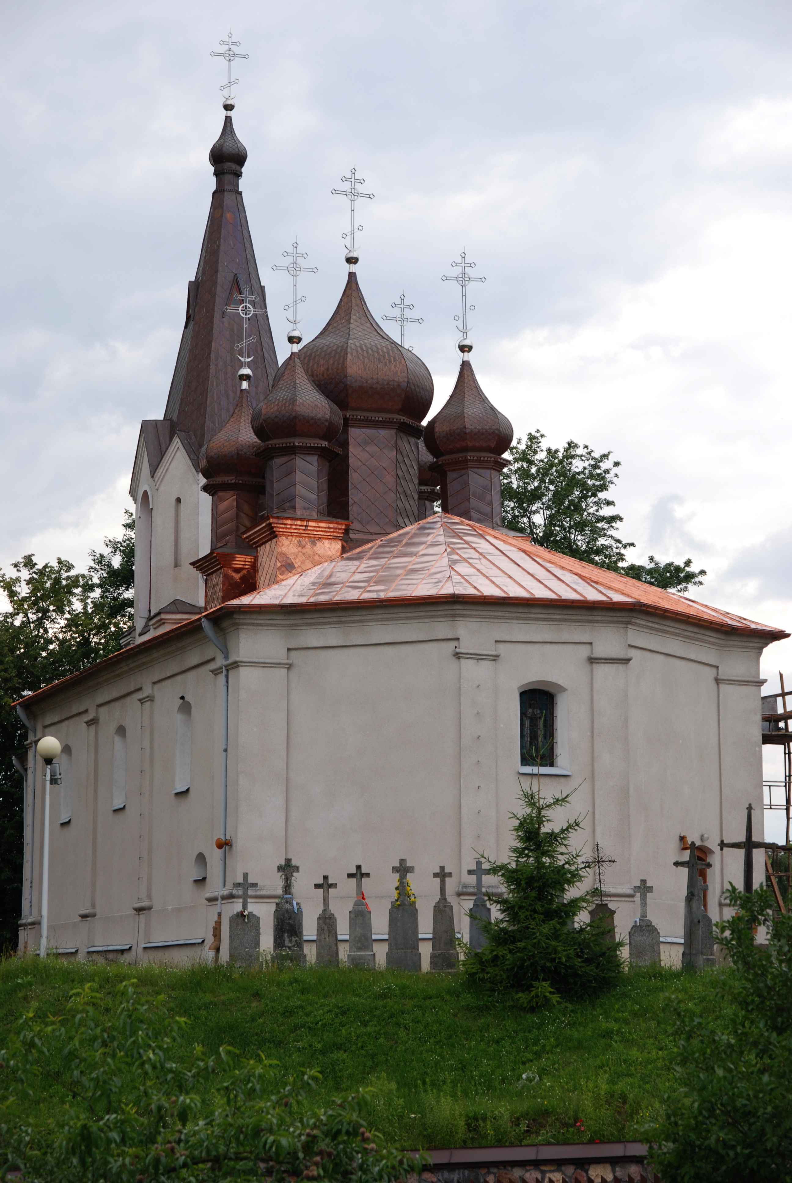 This photo from Podlaskie Voievodeship was taken during Polish Wikiexpedition 2009 set up by Wikimedia Polska Association. The making of this document was supported by Wikimedia Polska. Cerkiew Narodzenia Bogarodzicy w Mielniku